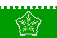 Flag of Olginskoe rural settlement, Krasnodar Territory, Russia